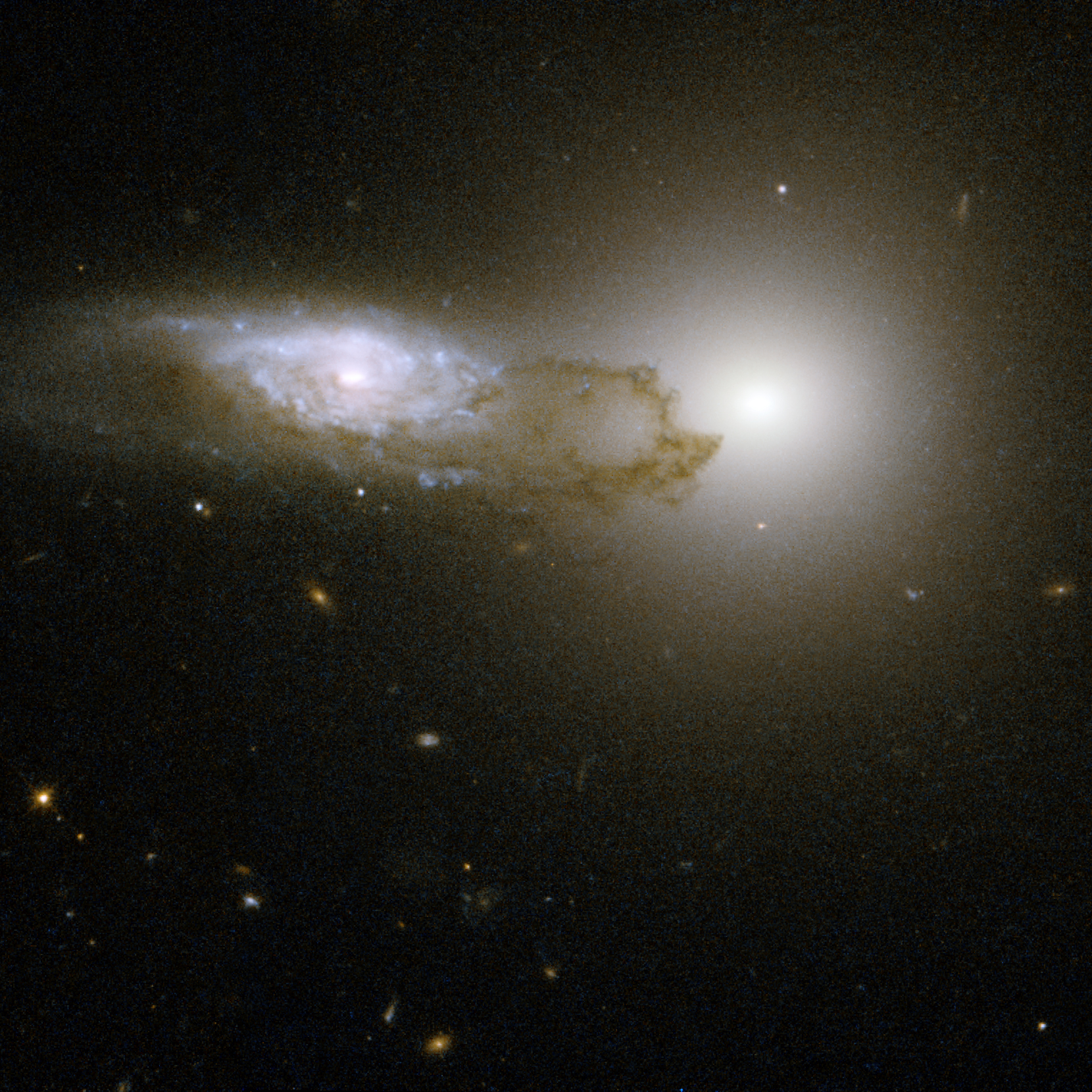 AM 1316-241 is made up of two interacting galaxies - a spiral galaxy (on the left of the frame) in front of an elliptical galaxy (on the right of the frame). The starlight from the background galaxy is partially obscured by the bands and filaments of dust associated with the foreground spiral galaxy. The Hubble image unravels the fine detail in the patchy clumps of dust confined to the spiral arms of the spiral galaxy. This dust reddens the light from the background just as the intervening dust in the Earth's atmosphere reddens sunsets here. AM1316-241 is located some 400 million light-years away toward the constellation of Hydra, the Water Snake. This image is part of a large collection of 59 images of merging galaxies taken by the Hubble Space Telescope and released on the occasion of its 18th anniversary on 24th April 2008. About the objectObject nameAM 1316-241, ESO 508-45Object descriptionInteracting GalaxiesPosition (J2000)13 19 32.90 -24 29 20.0ConstellationHydraDistance350 million light-years (100 million parsecs)About the dataData descriptionThe Hubble image was created using HST data from proposal 6438: W. Keel (University of Alabama, Tuscaloosa)InstrumentWFPC2Exposure date(s)July 18, 1997Exposure time1.3 hoursFiltersF435W (B) and F814W (I)